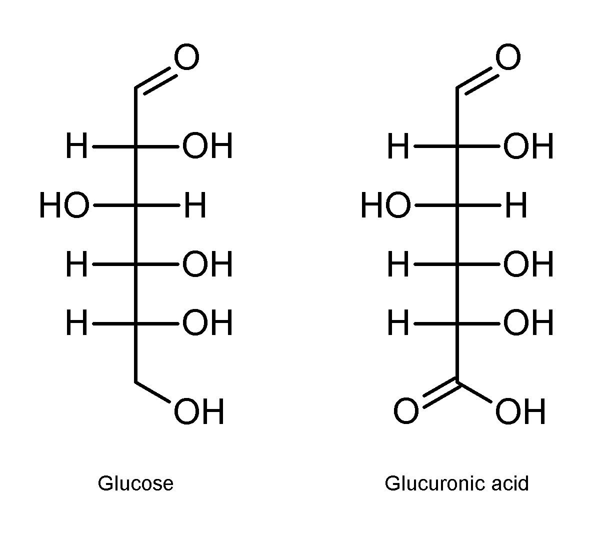 Replacing Glucuronic.png created by . Was originally tagged as follows: I drew this image to illustrate the connection between sugars and their uronic acids for my uronic acid article. Maintaining original public domain tags.